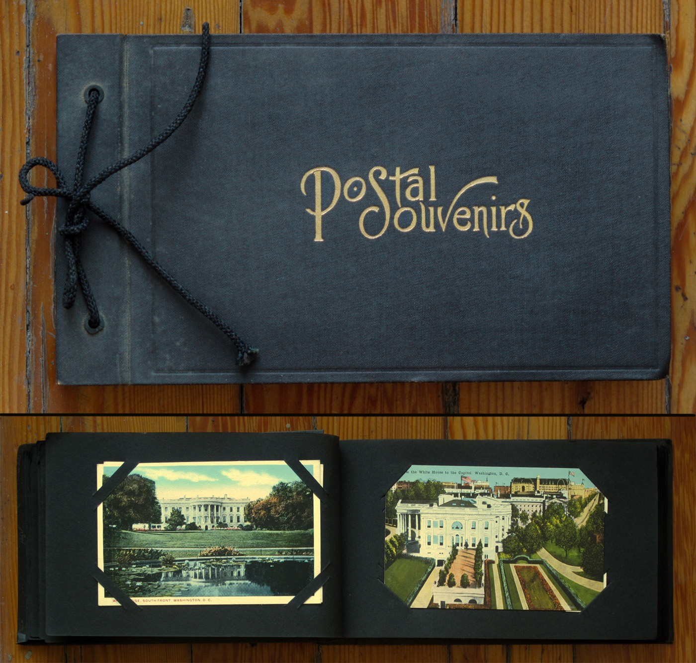 Album for a postcard collection from the "Golden Age" of American postcards. The album model is "The Ideal", and it was made by the J.L. Hanson Co., Chicago. It dates from the early 1910s. The lower photo shows two ways the postcards can be held by the album pages. No label or room for a label is needed, as the American postcards of the time nearly always had a caption printed on the front, as shown here.